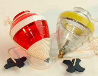 Trompo Bearing